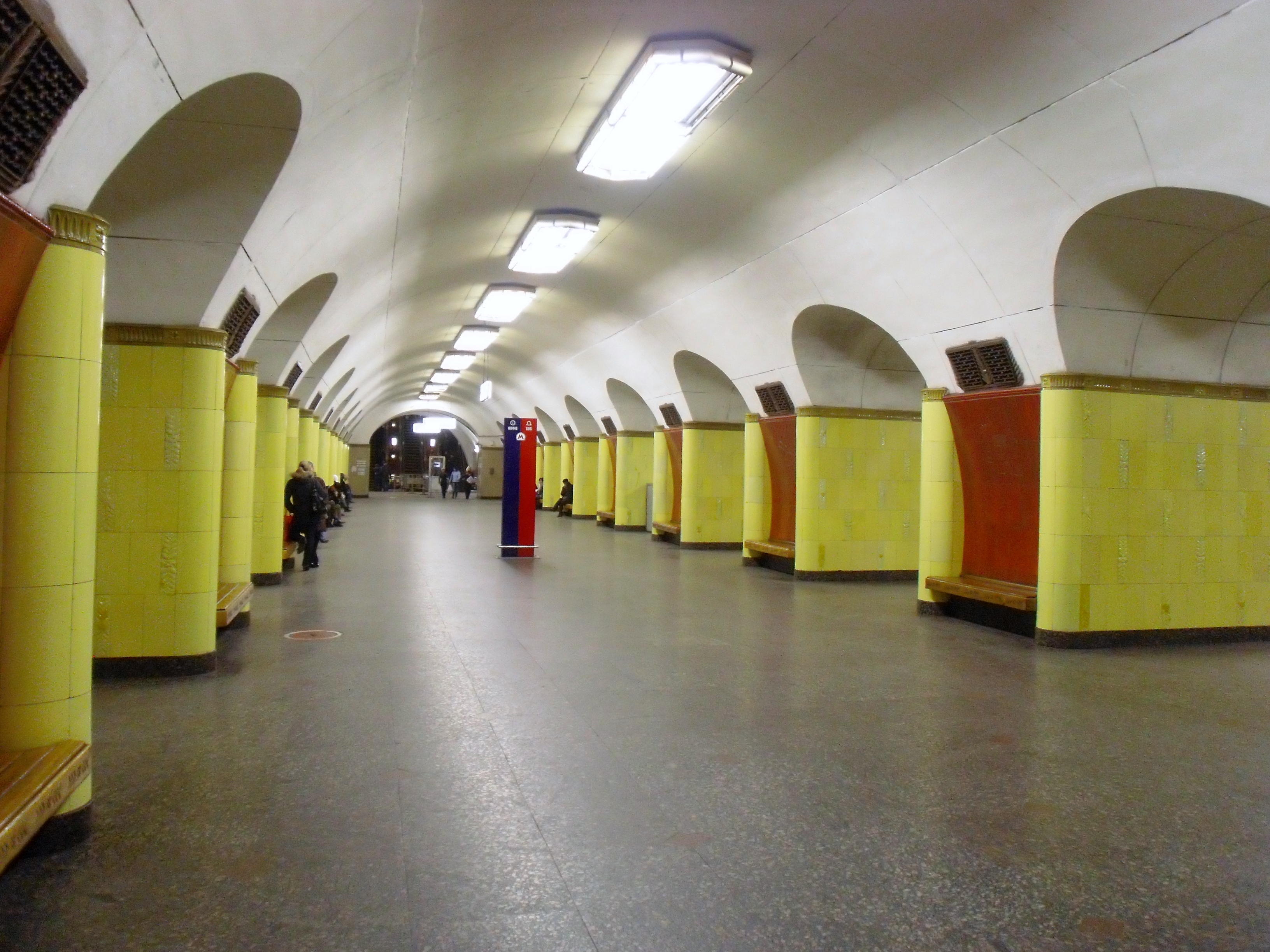 Rizhskaya metro station in Moscow